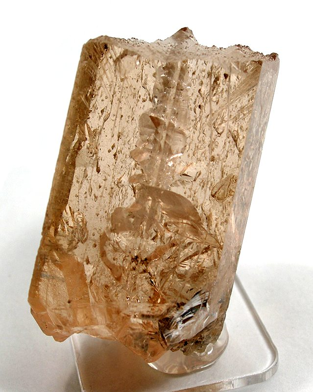 Topaz Locality: Dassu (Dasso; Dusso), Shigar Valley, Skardu District, Baltistan, Northern Areas, Pakistan (Locality at ) Size: miniature, 4.8 x 2.6 x 2.4 cm Topaz with screw dislocation A really unusual miniature topaz specimen, in that it is not just your typical gemmy miniature but has the bizarre growth effect called a screw dislocation running through its center and popping up in the top, right in the middle, where the screw dislocation raises the surface point of that portion of the crystal above the rest. It is incredibly hard to photograph, given the clarity of the crystal overall but internal fractures that reflect light and make it look fuzzier than it is in person. But trust me, this is a superb example of the effect and it is more commonly known in beryls. A screw dislocation in topaz is much more uncommon.